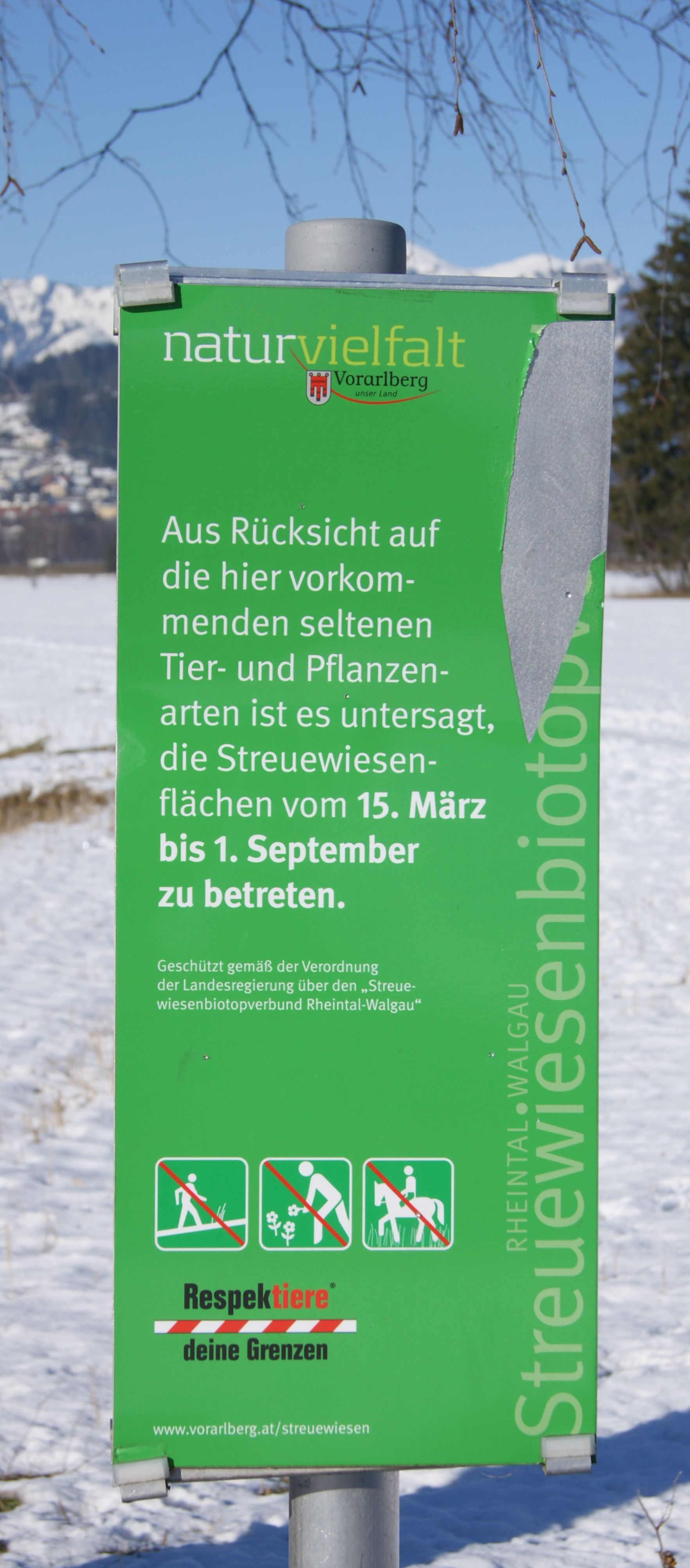 Frastanzer Ried (bog) in Frastanz, Vorarlberg, Austria. Information nature conservation.